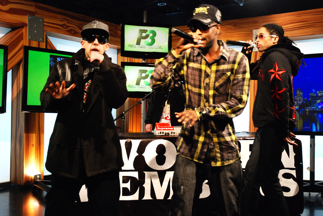 Hip-hop crew Swollen Members in january 2010